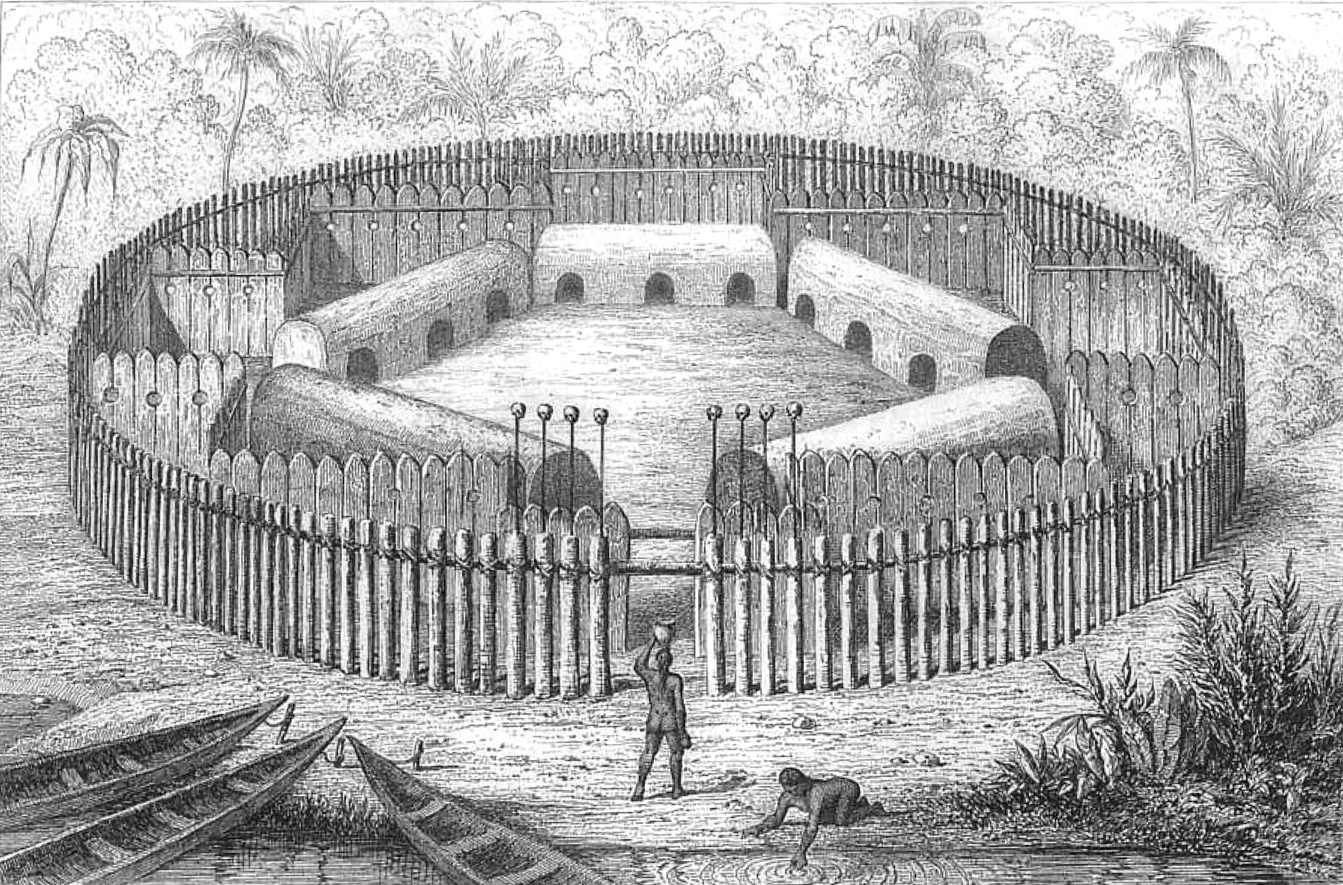 Indigenous Village or Taba - Gravure by A.F. Lemaitre